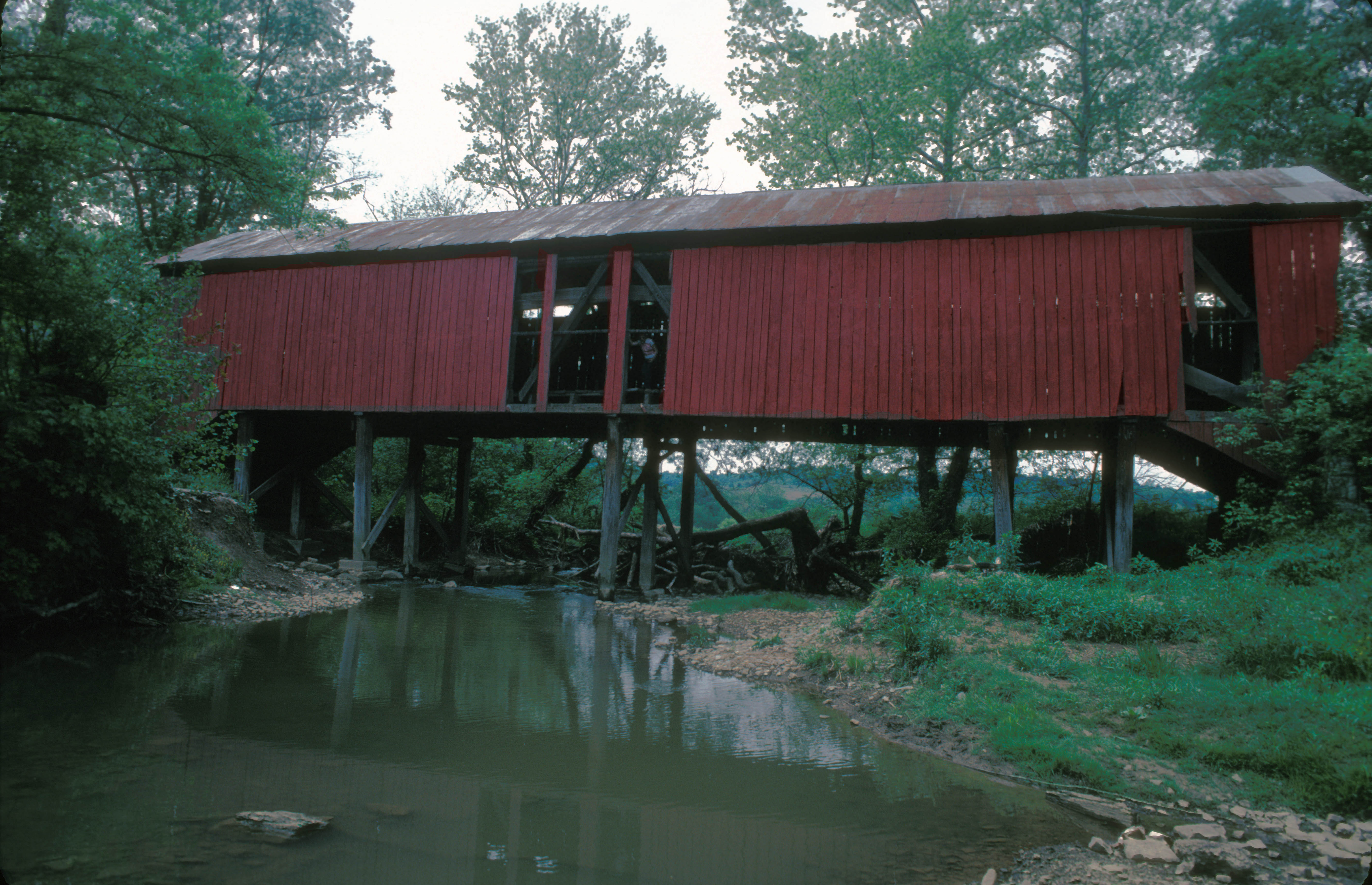 Red or Neils Covered Bridge OVER WHITELEY CREEK in Green Township, Greene County, Pennsylvania; Built 1900, BURR truss; 91’